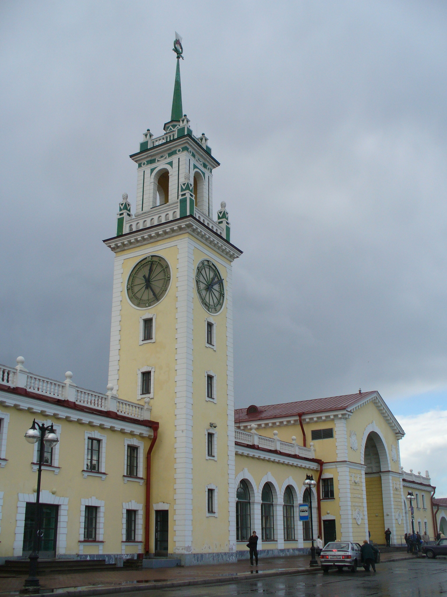 Volkhovstroy-1 station, Volkhov, Leningrad Oblast, Russia